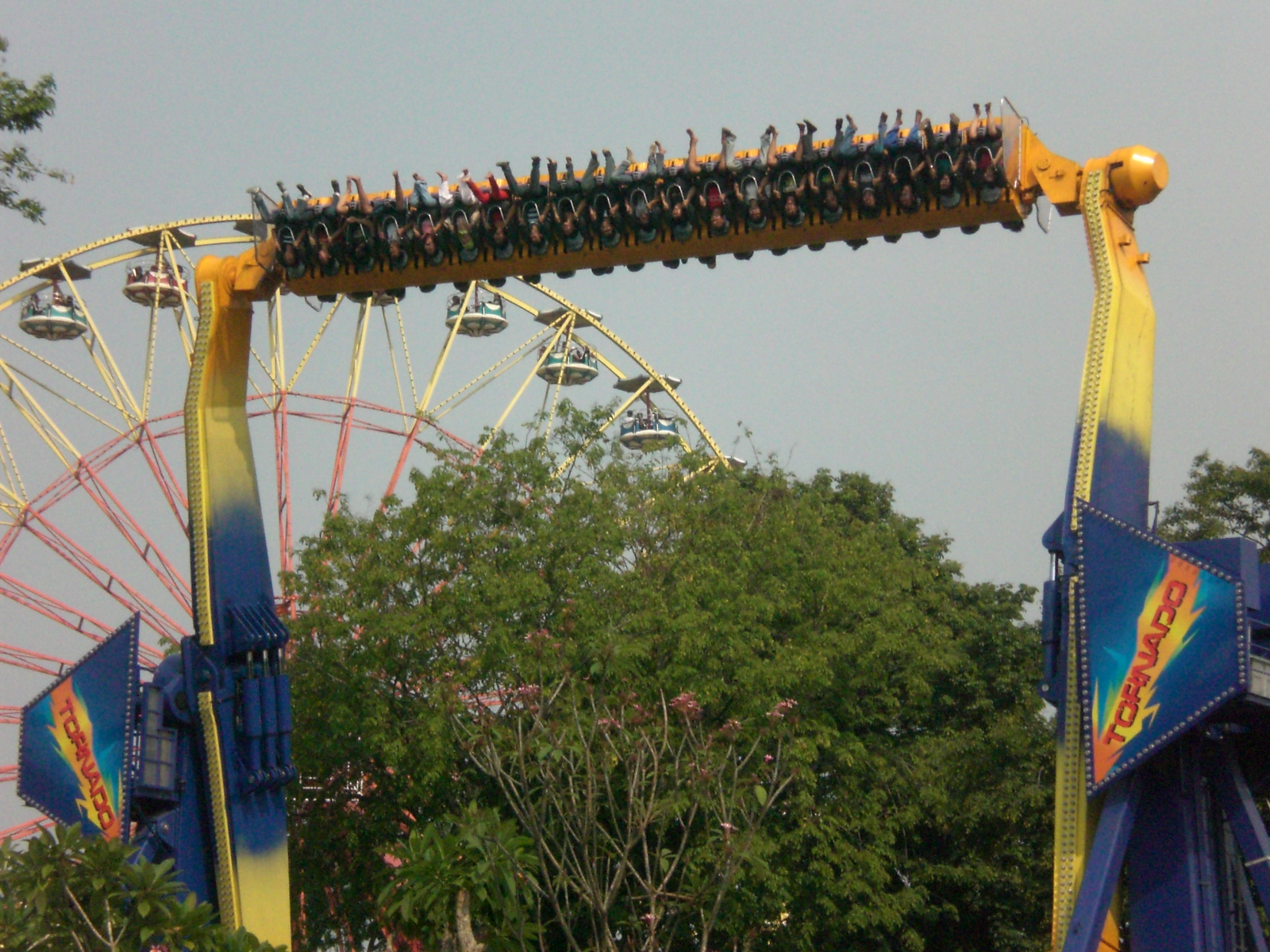 Tornado at Dunia Fantasi (Zamperla Backflash - Suspended Windshear). The ride is similar in looks to a top spin however the arms can move in opposite directions giving a twisting motion.